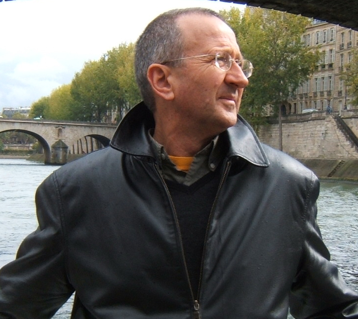 Ton Backhouse